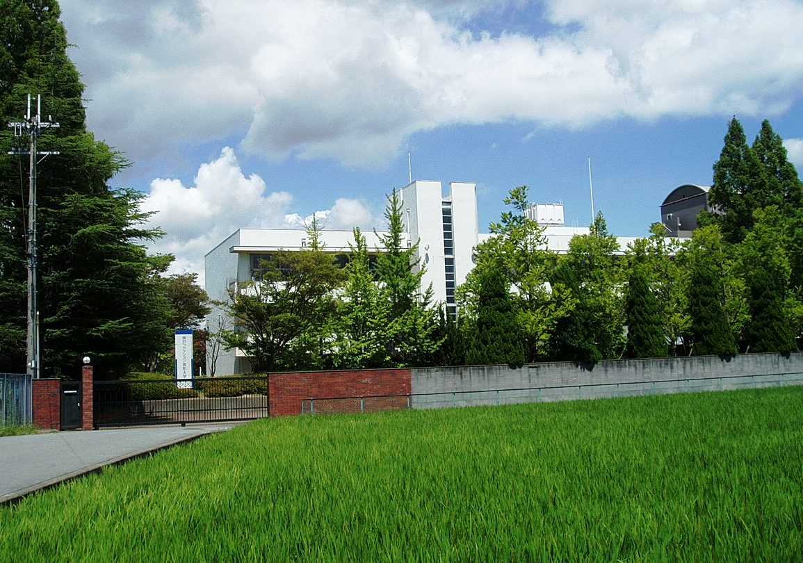 The main gate of Kobe University of Fashion and Design located in Akashi, Hyogo, Japan.